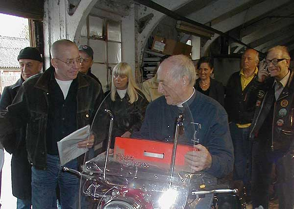 Len Paterson, founder of the Rocker Reunion movement, Father Graham Hullet of the 59 Club, Stu Weston and other original members of the 59 Club